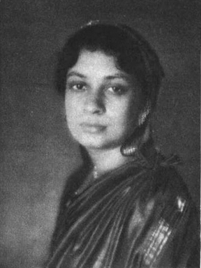 Pratima Devi, from a 1921 publication.